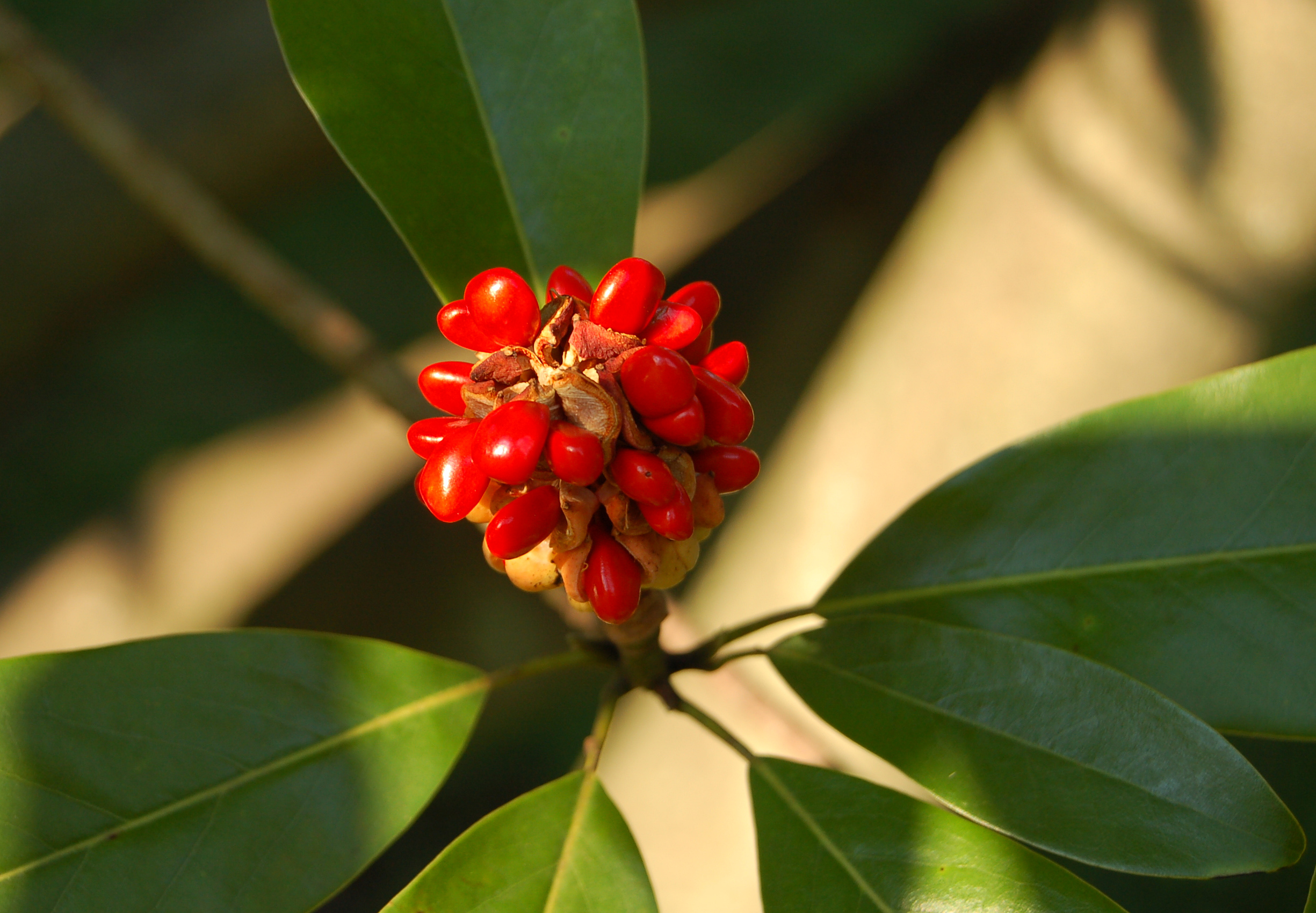 Photograph of a ripe and opening fruit of the Sweetbay Magnoliaen (Magnolia virginiana en ) with the red seeds exposed. Photo taken at the Tyler Arboretum where it was identified.